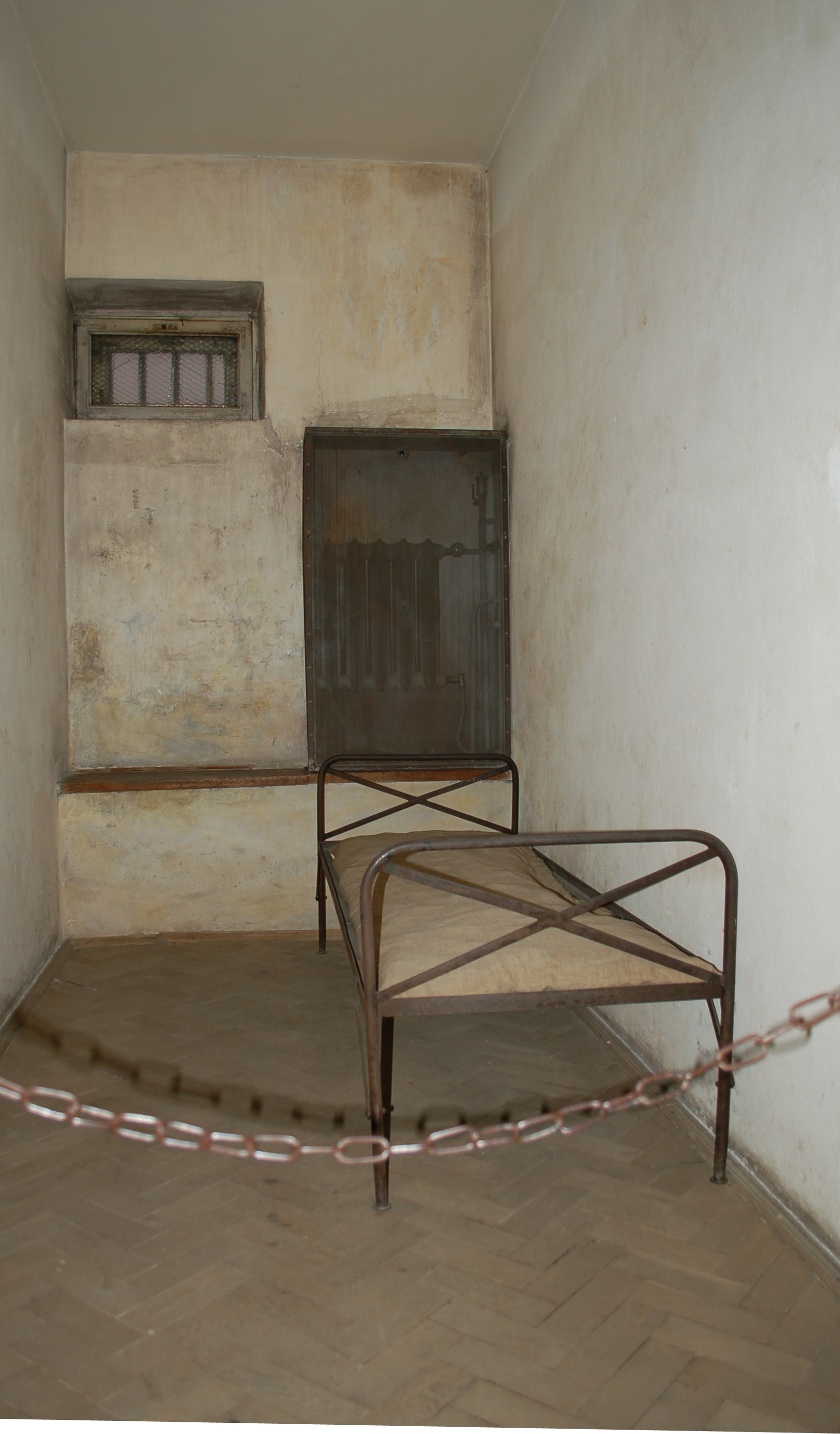 Mausoleum of Struggle and Martyrdom, Warsaw